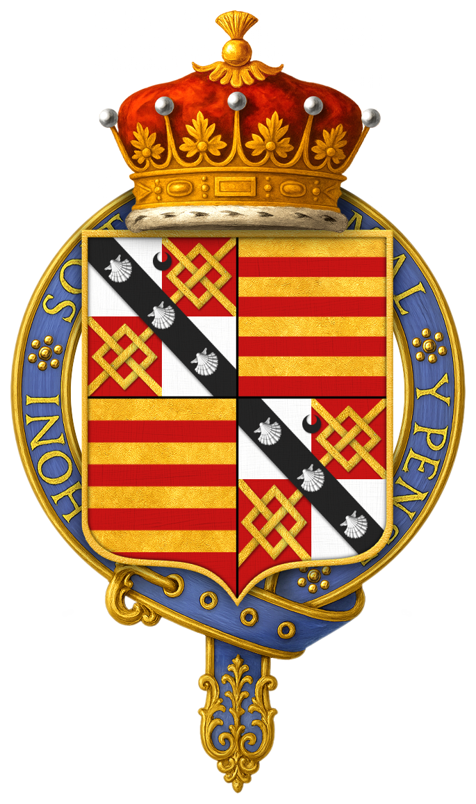 Shield of arms of John Spencer, 5th Earl Spencer, as displayed on his Order of the Garter stall plate in St. George's Chapel.